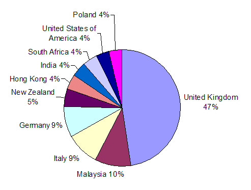 Percentages of Foreign-Born in Mount Osmond, Adelaide, South Australia